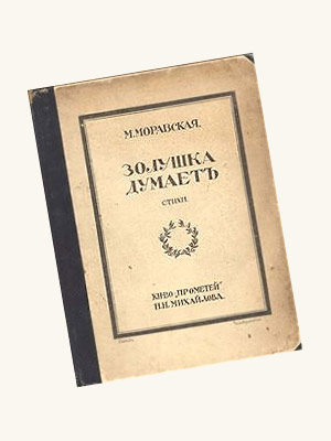 Zolushka dumaet (Cinderella Thinking), a book written by Maria Moravskaya in 1915